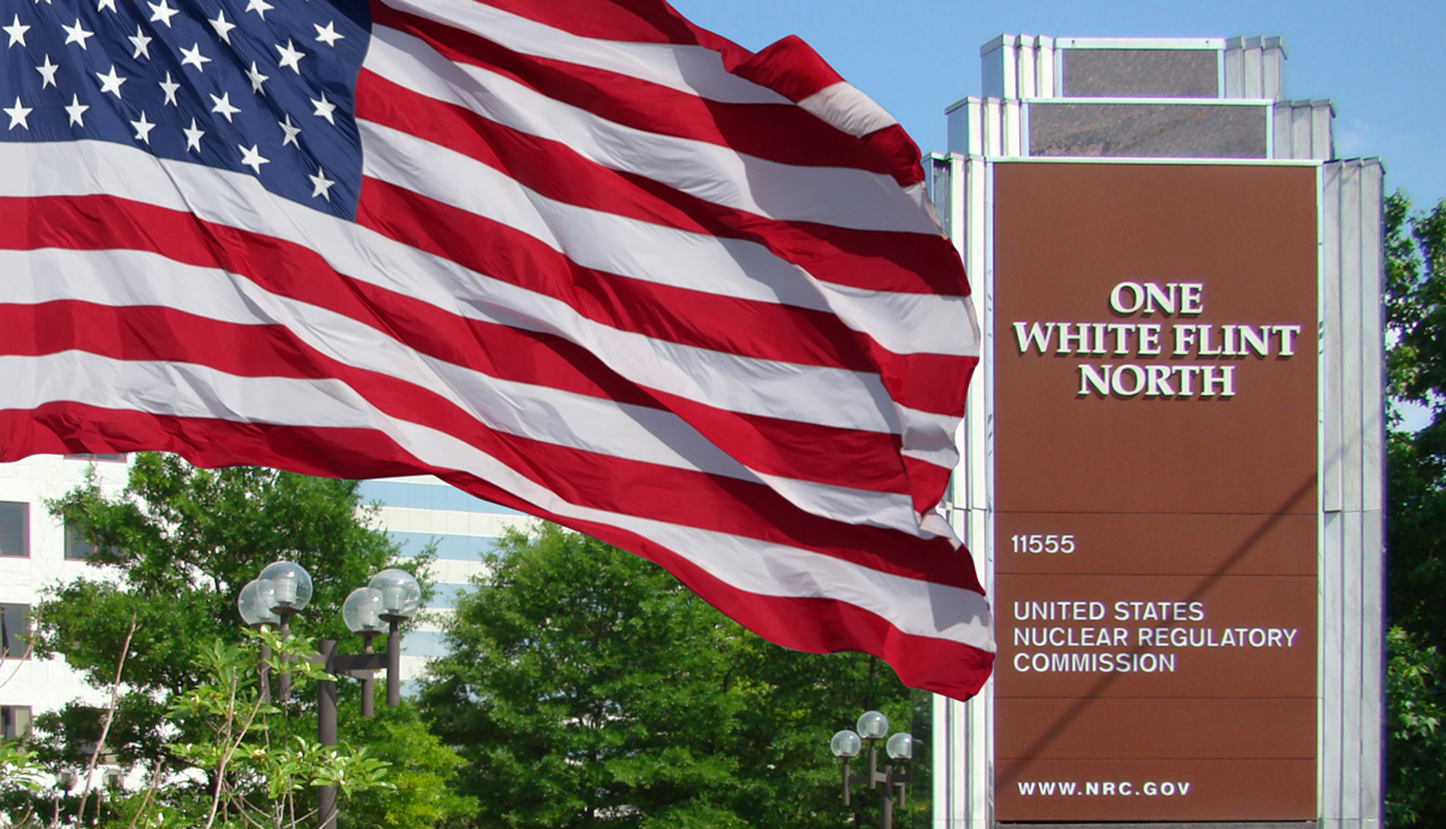 NRC Headquarters